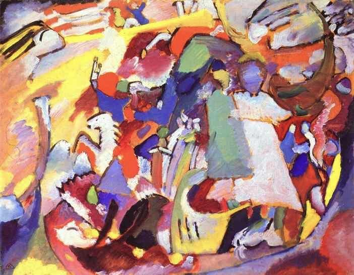 Vasily Kandinsky - All Saints, 1911, Städtische Galerie im Lenbachhaus, Munich, Germany